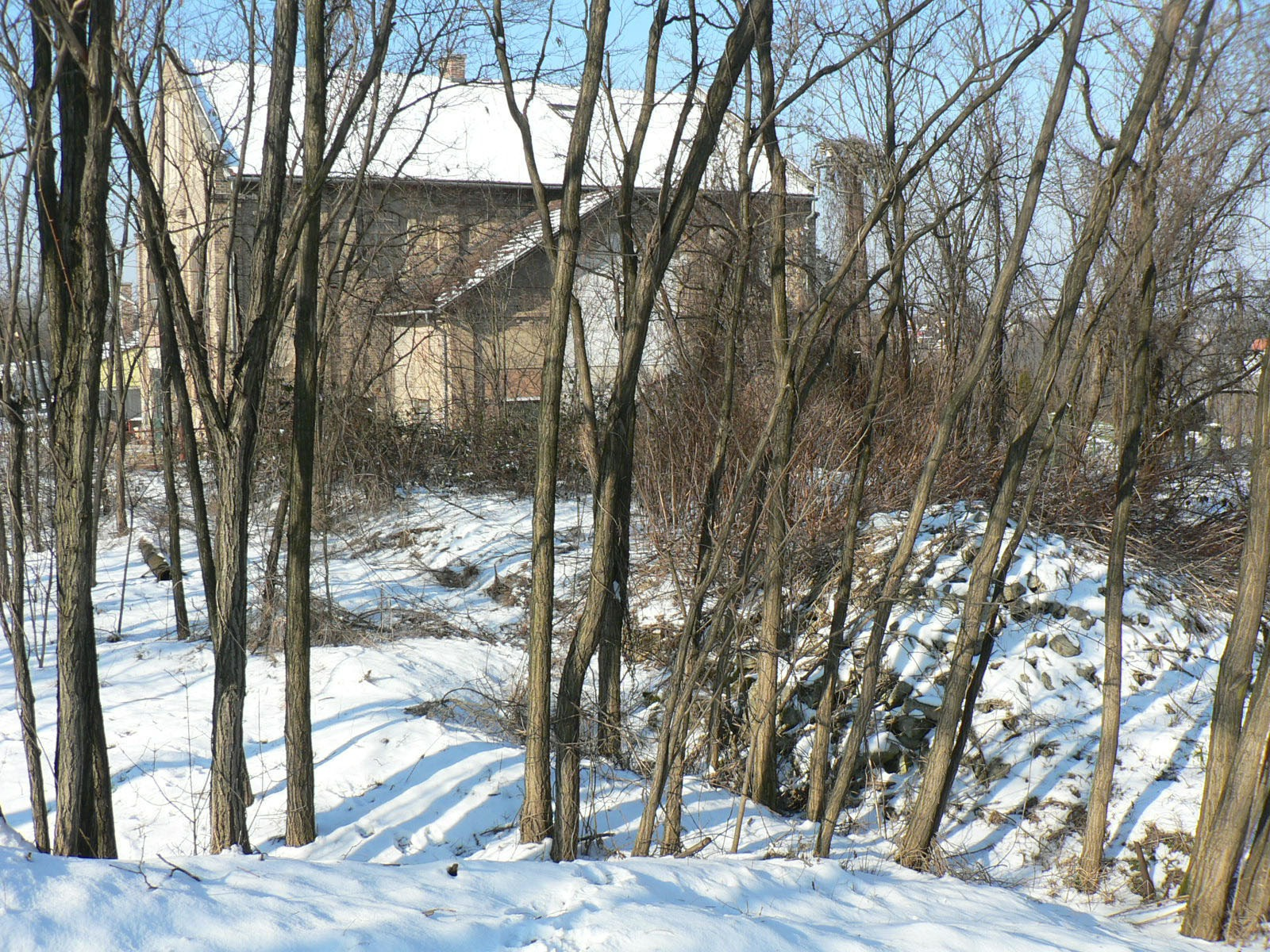 Bozóttal benőtt süppedékes terület - valahol itt nyílt a Solymár I. lejtősakna (2011)